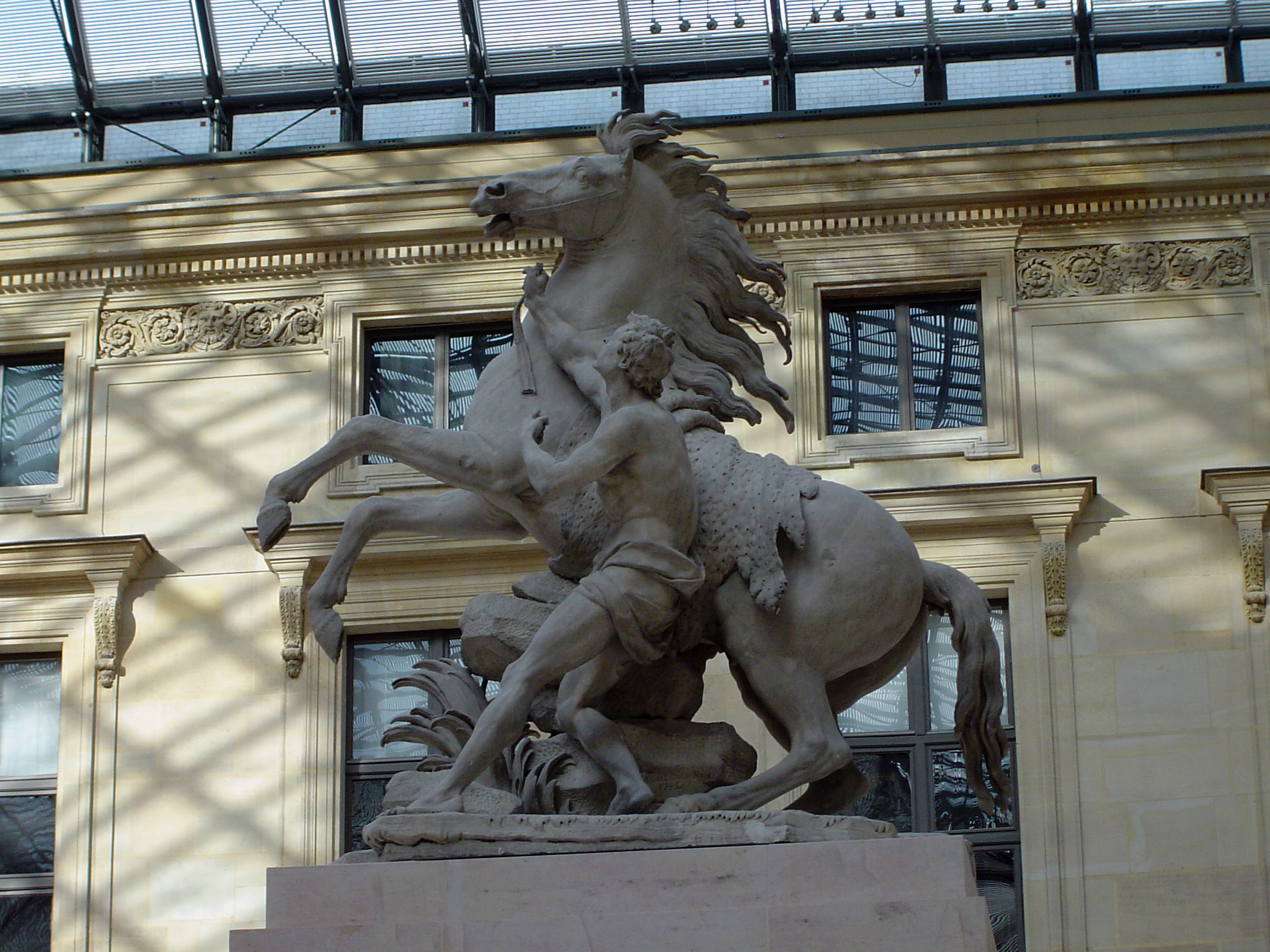 One of the so-called Marly Horses. Carrara marble, 1739-1745. Commissioned in 1739 for the park of the castle of Marly, the two sculptures were transfered in 1794 to the entrance to the Champs-Élysées in Paris and replaced by cement copies in 1985.